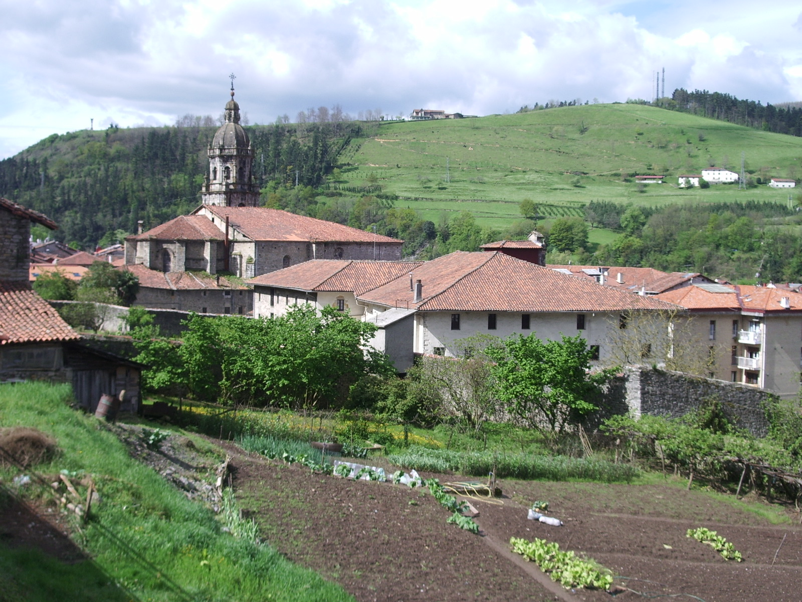 View of historic quarter of Bergara, Guipuscoa, Basque Country